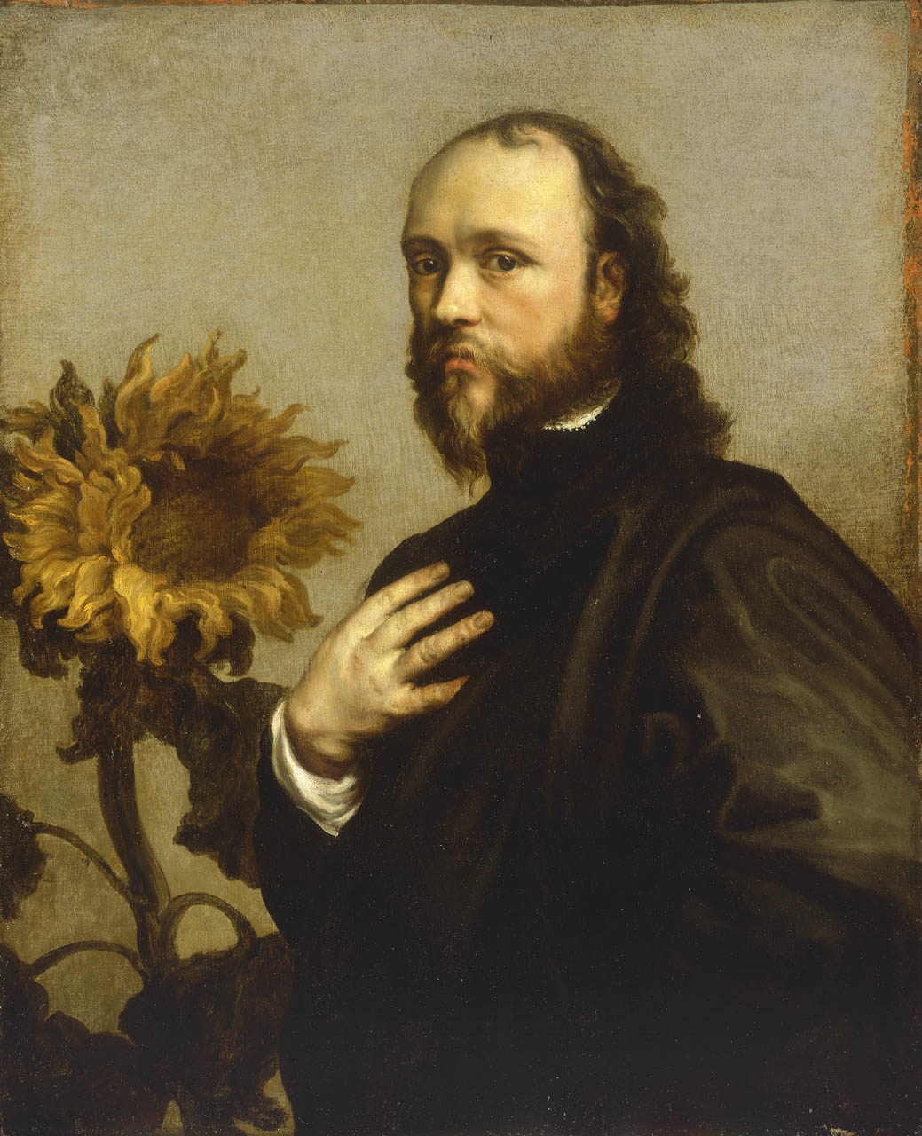 Portrait of Sir Kenelm Digby with a Sunflower